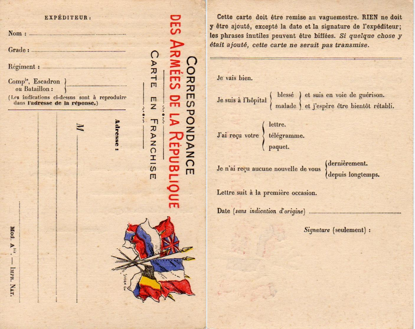 French card during first world war not used